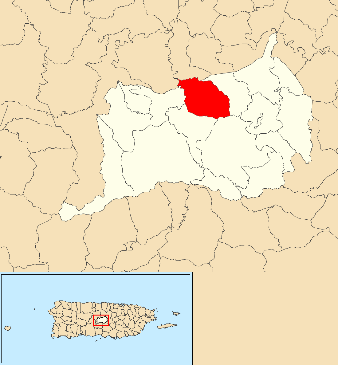 Damián Arriba, Orocovis, Puerto Rico locator map